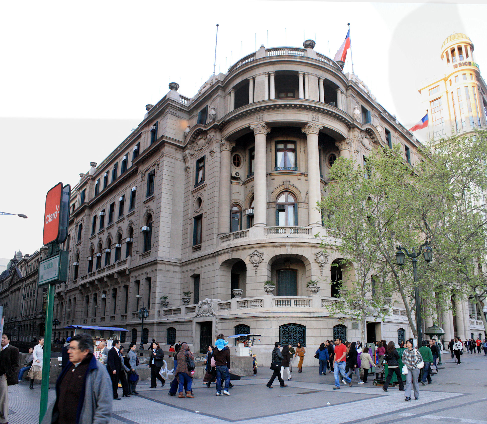 It's on the corner of Bandera and Av O'Higgins, Santiago